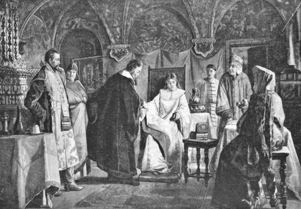 Maria Ivanovna Khlopova, the Bride of the Tsar Michail Fyodorovich.